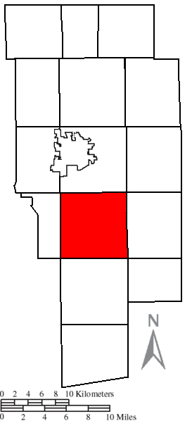 Originally created by the US Census. Modified by myself to highlight the township.